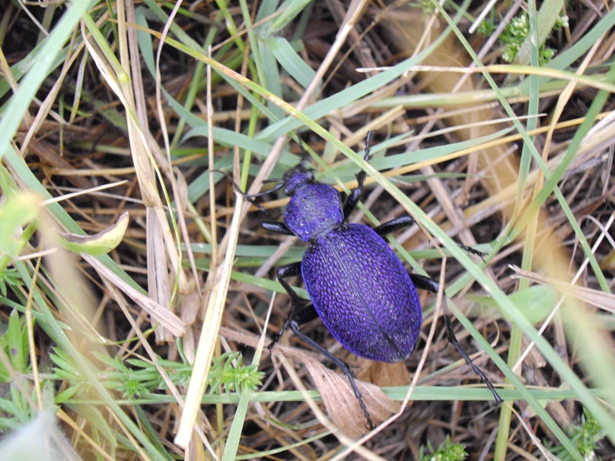 Carabus tauricus